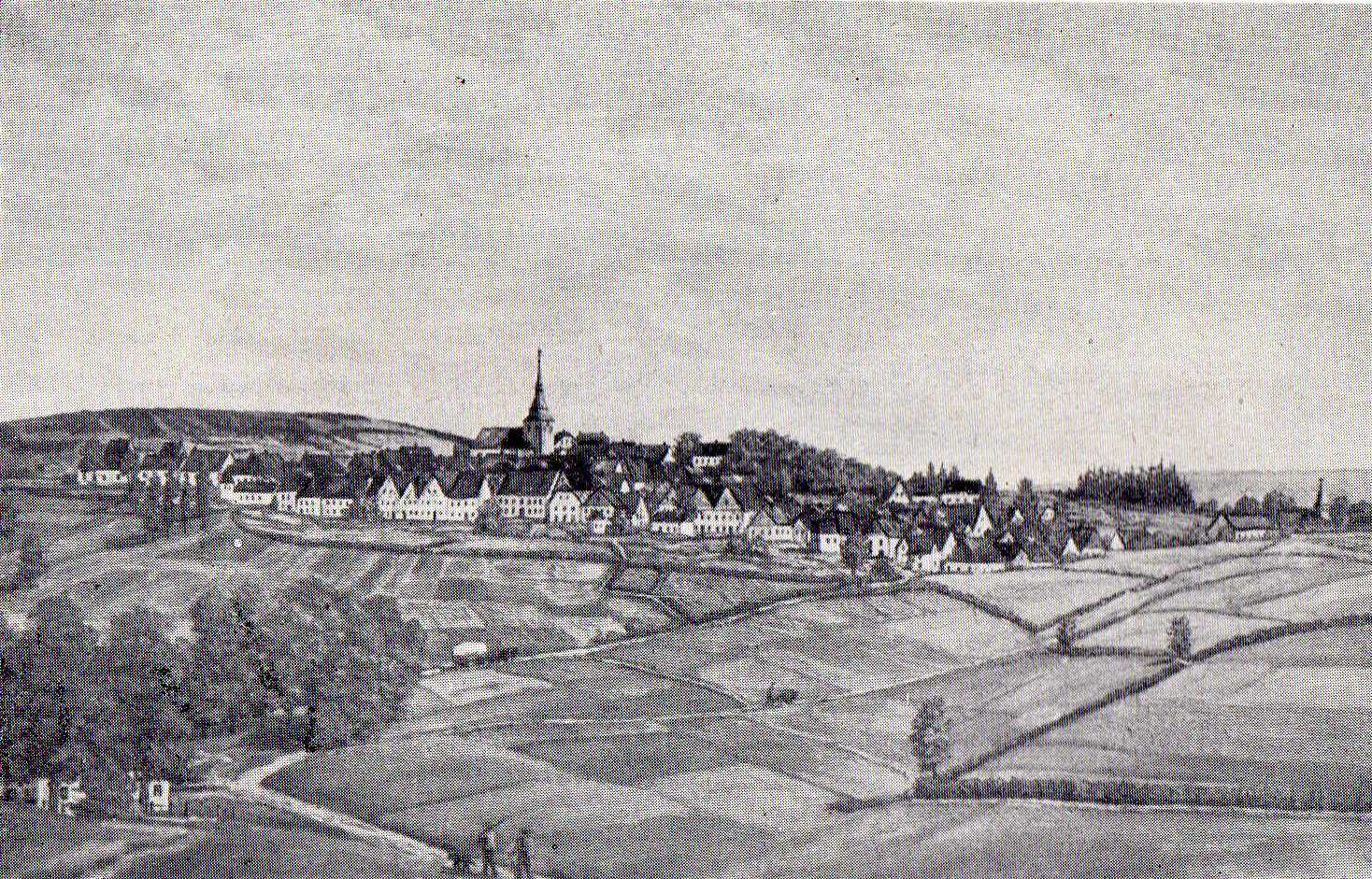 Lüdenscheid at about 1800